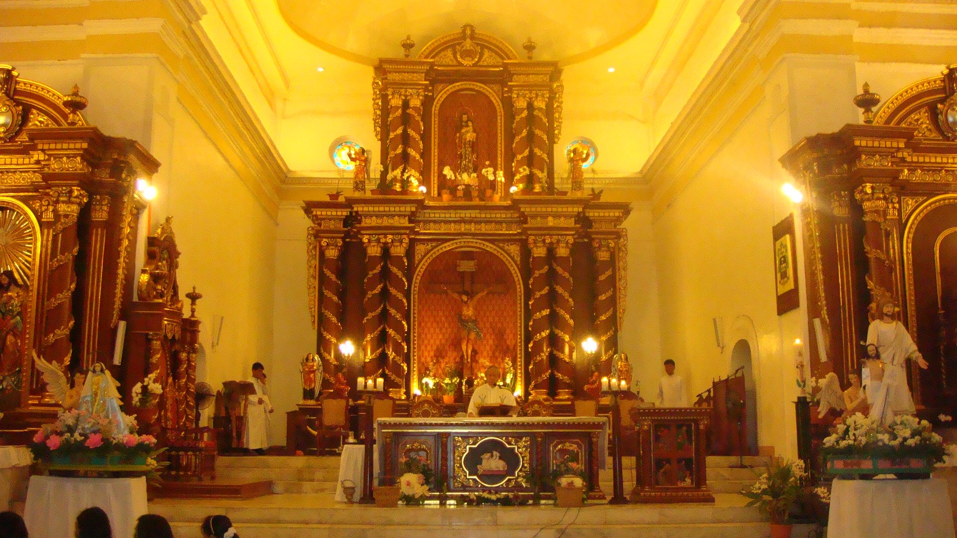 2012 Easter Sunday Mass, Cathedral of Saint Joseph (Poblacion) Alaminos City